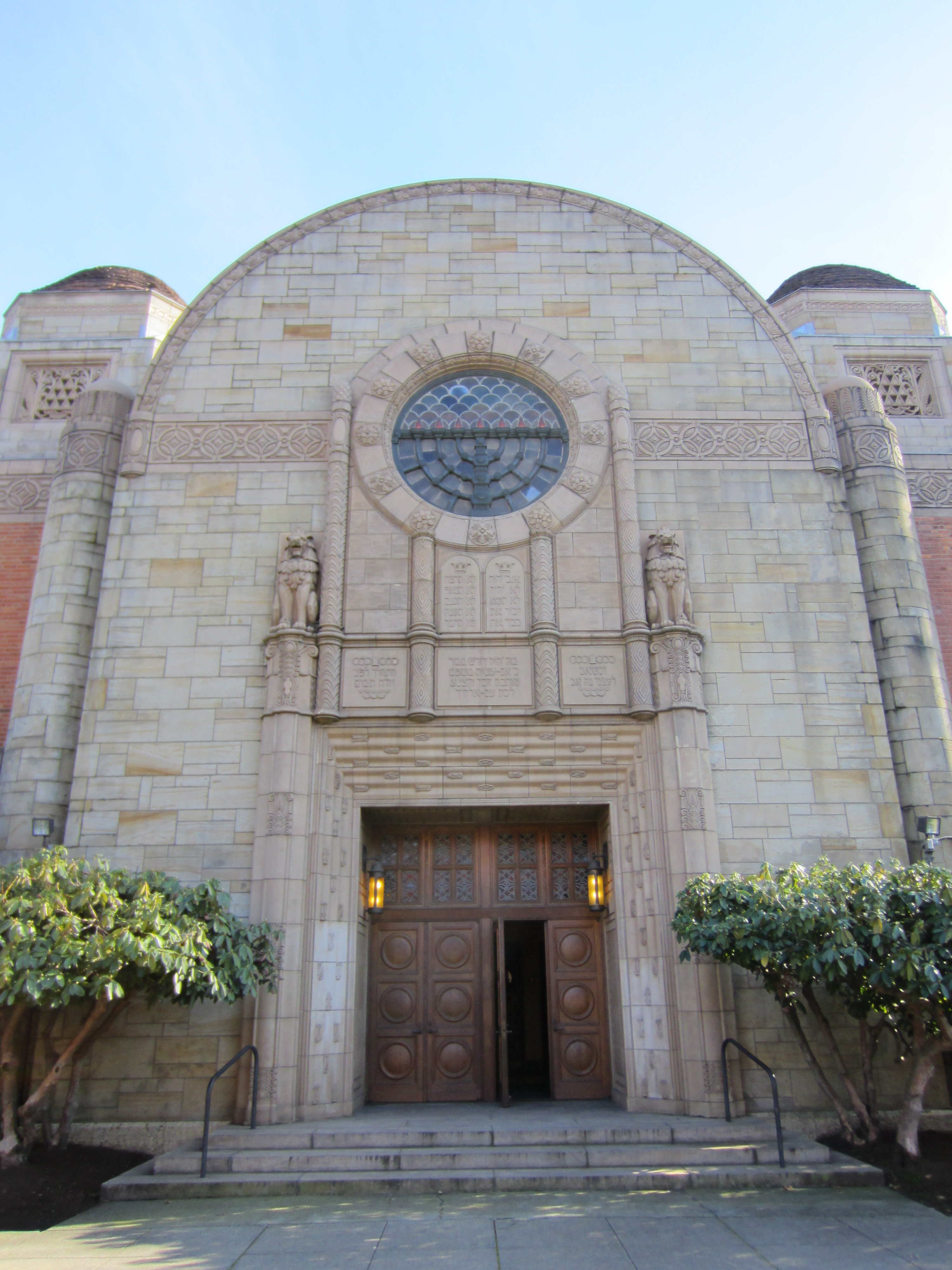 Congregation Beth Israel, also known as Temple Beth Israel, in downtown Portland, Oregon in 2012